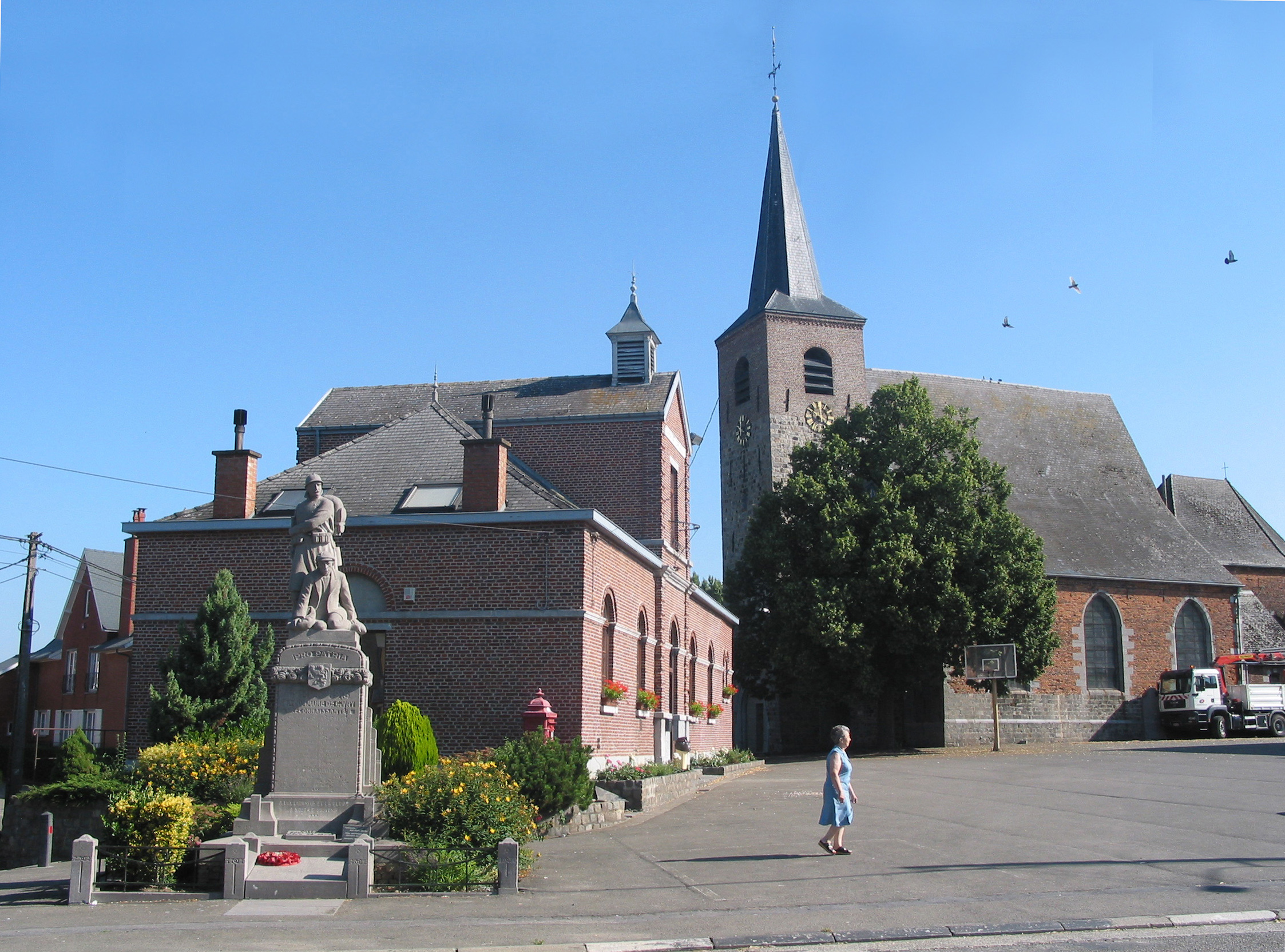 Givry (Belgium), the town hall the St. Martin's church (XIII, XVI and XVIIIth centuries).